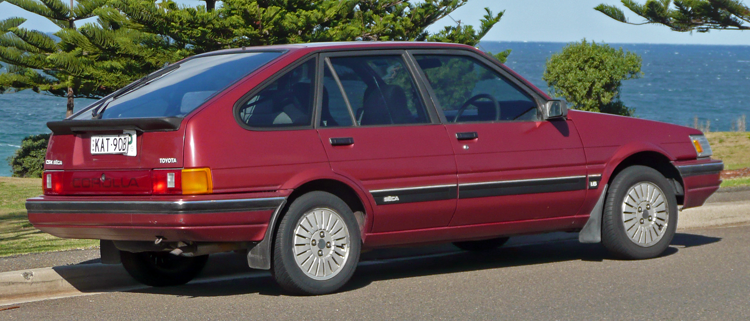 1986–1989 Toyota Corolla (AE82) CSX Seca liftback. Photographed in Cronulla, New South Wales, Australia.